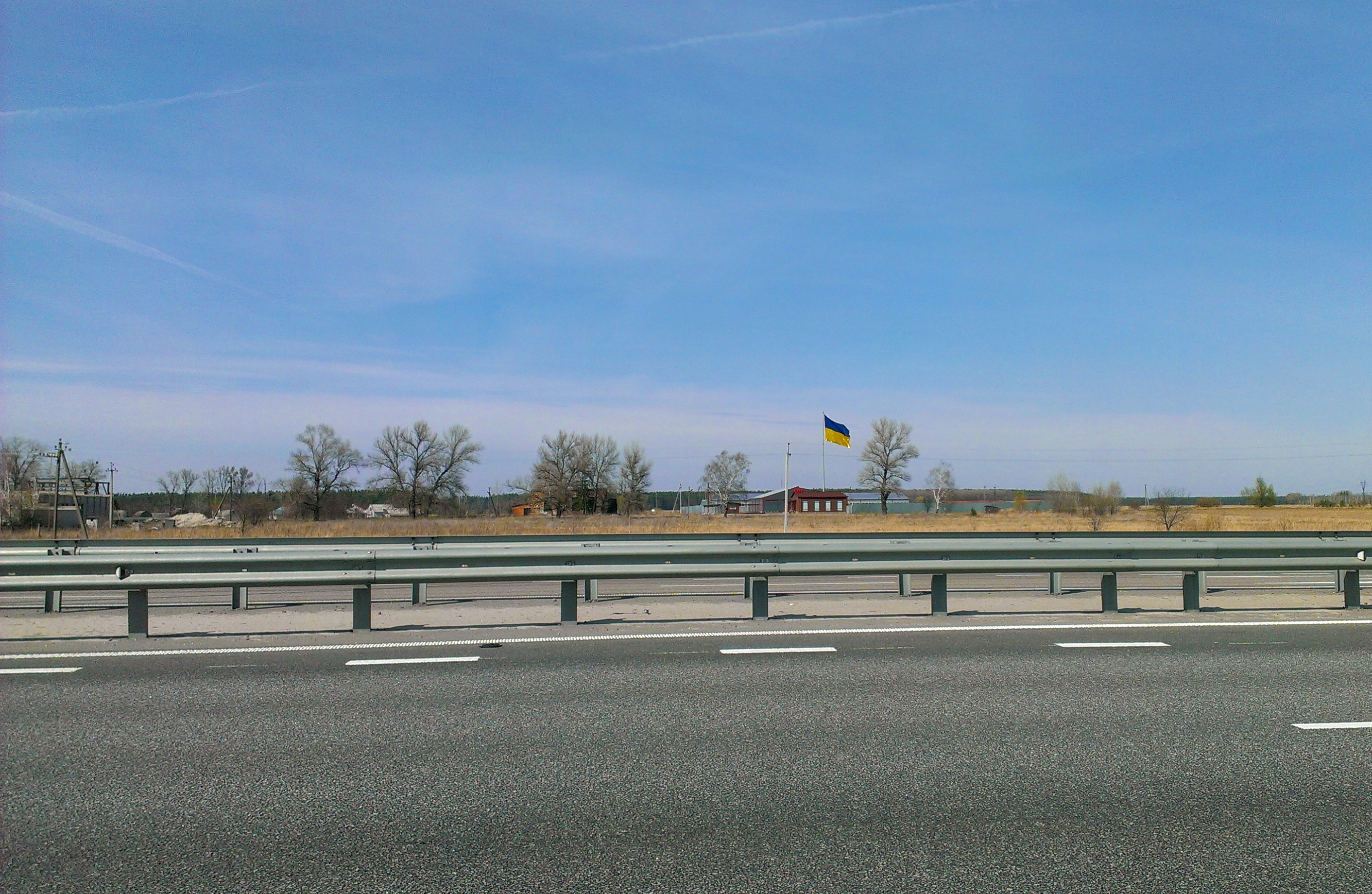 Flagpole in Nebelytsia